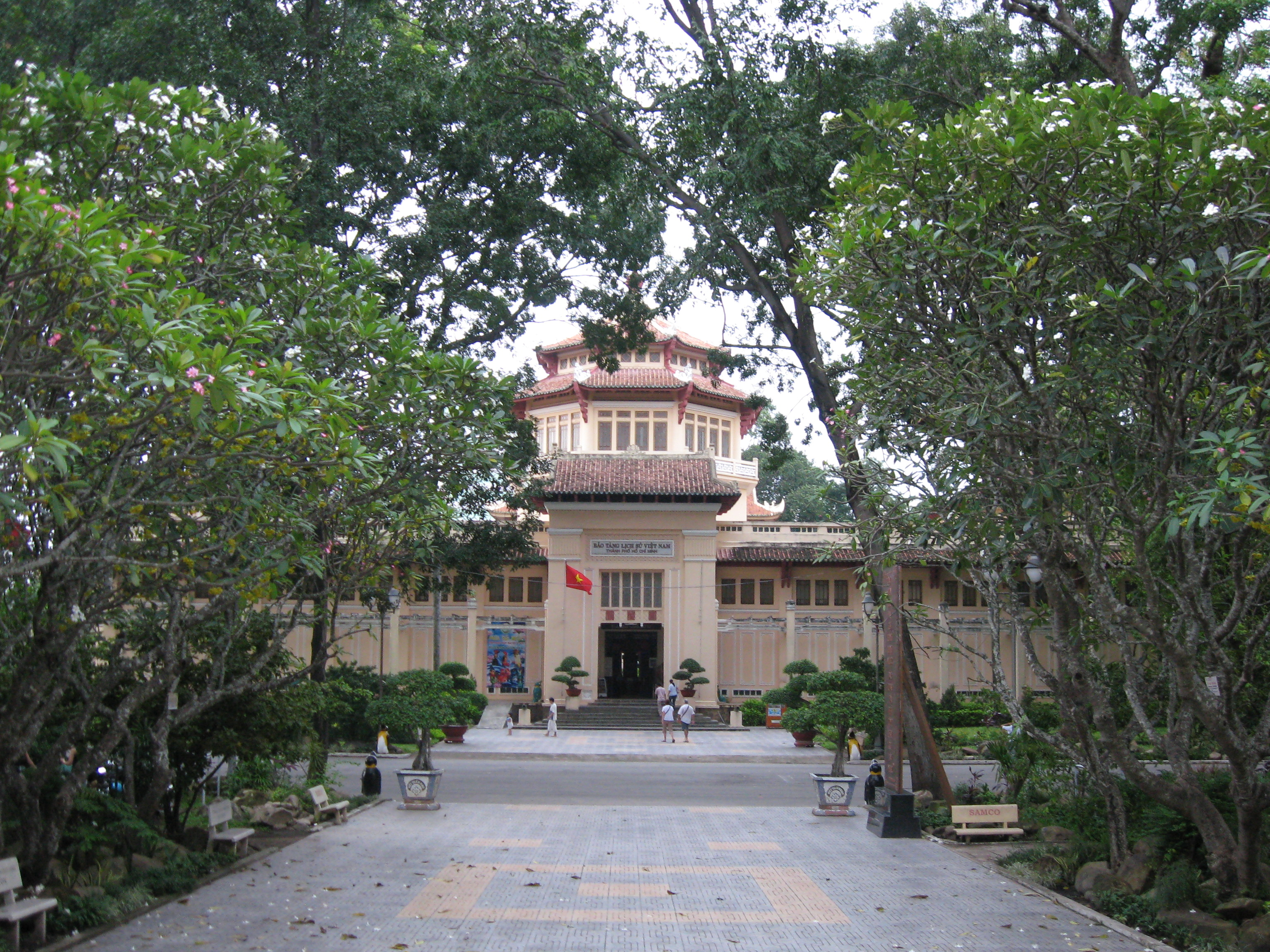 Vietnam's History Museum in Ho Chi Minh City